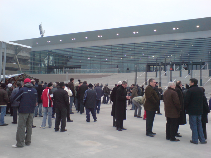 Opening day